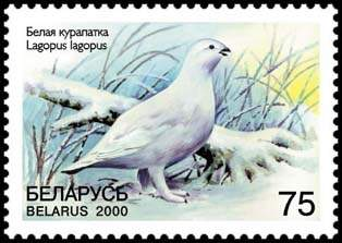 Stamp of Belarus